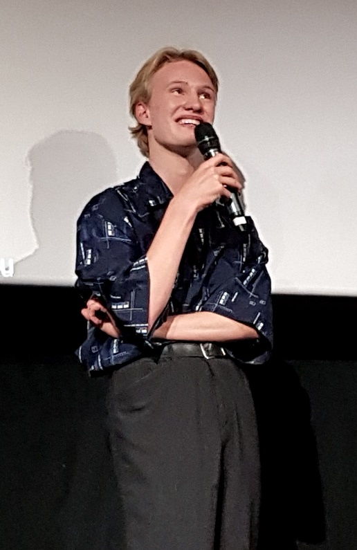 Victor Polster at Paris "Girl" Premiere